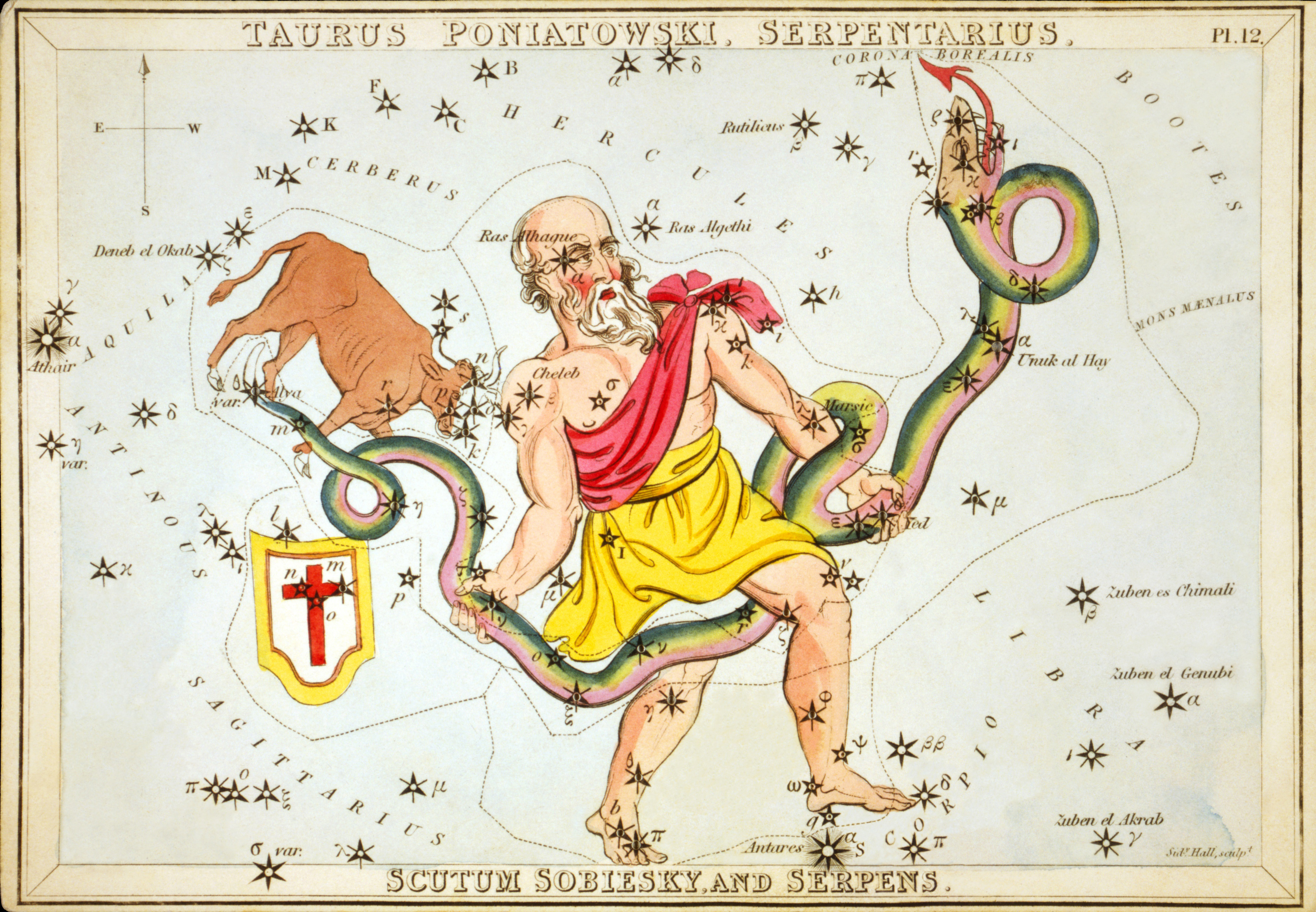 Ophiuchus as depicted in Urania’s Mirror, a set of constellation cards published in London c. 1825. Astronomical chart showing a man grappling with a serpent, at the tail end of which is a bull and a shield bearing a cross forming the constellations.